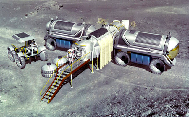 Phase 2 ILREC temporary lunar outpost. Two pressurized rovers are docked tail-first to the support node, as is a pressurized consumables cart (at the end of the node opposite the airlock). Hanging regolith-filled bags on the node provide added protection from ionizing radiation. Wheels removed from the airlock/node are stacked to the left of the surface access gangway; they serve as spares for the pressurized moon bus rovers. A buried electrical cable (visible as a curved line in the lunar dirt running from center to lower right) leads toward a nuclear reacto